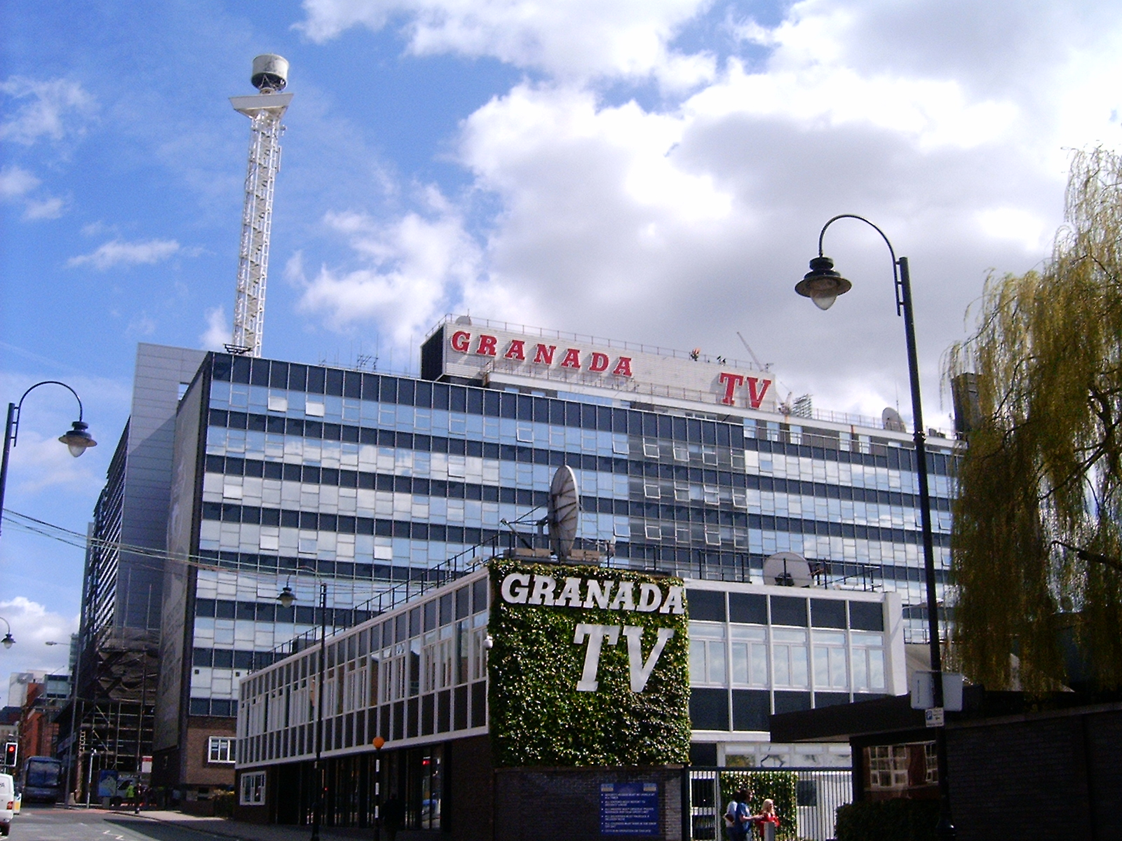 Headquarters of Granada TV